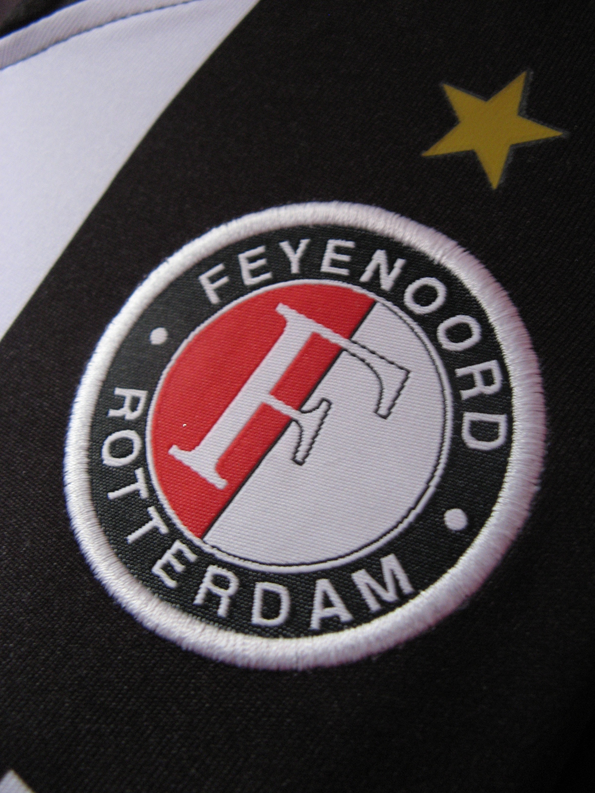 Feyenoord Rotterdam logo. The "golden logo" returned in 2008 as Feyenoord's official logo.